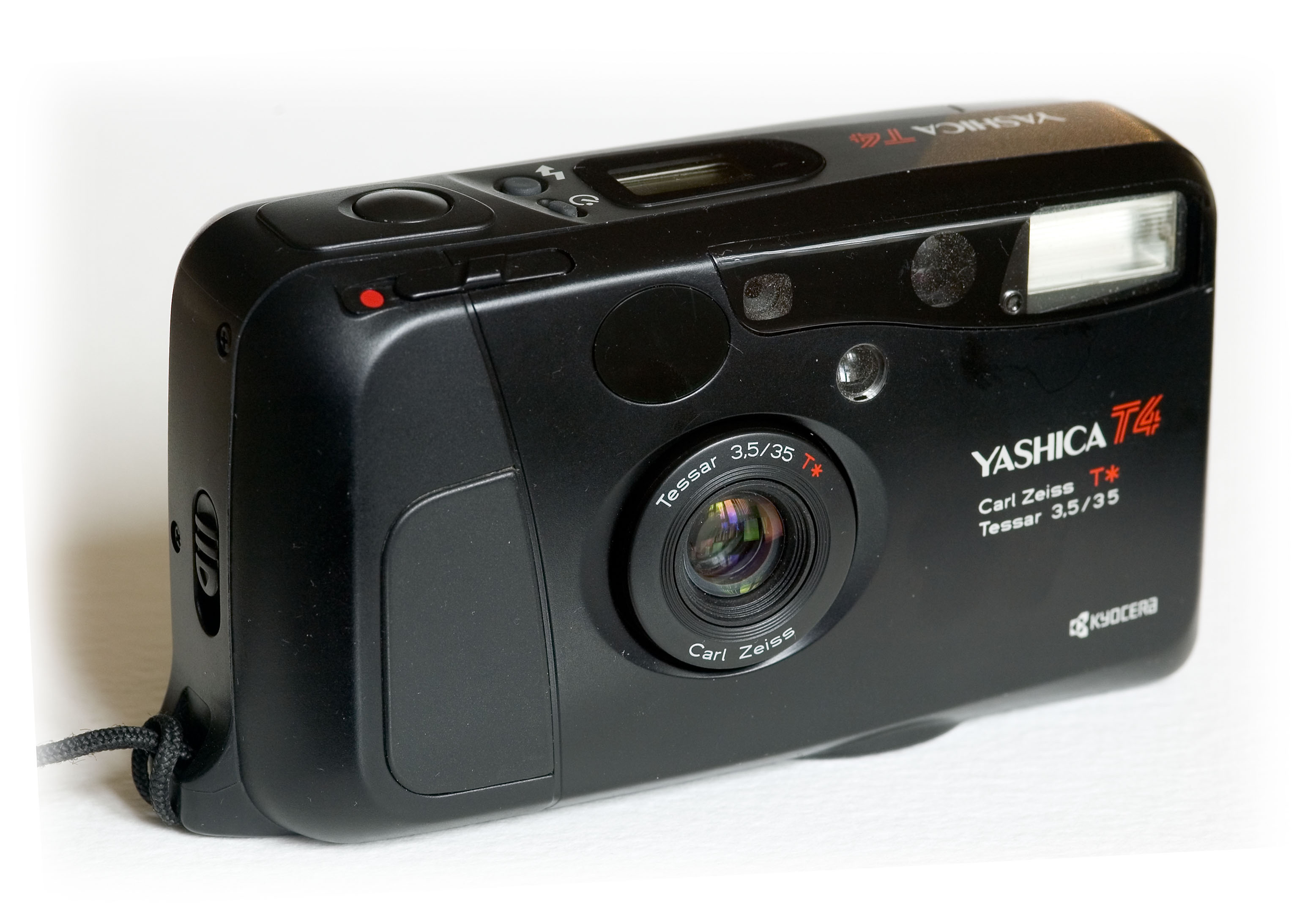 My last analogue (film) travel camera. Bought for the Tessar lens whose characteristics I like. (CC-by-SA which means anyone can use any size of this image anywhere provided accompanied by the credit: Image: George Rex Photography)